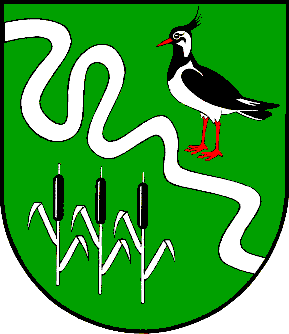 Coat of arms of the municipality Meggerdorf in Schleswig-Holstein, Germany.